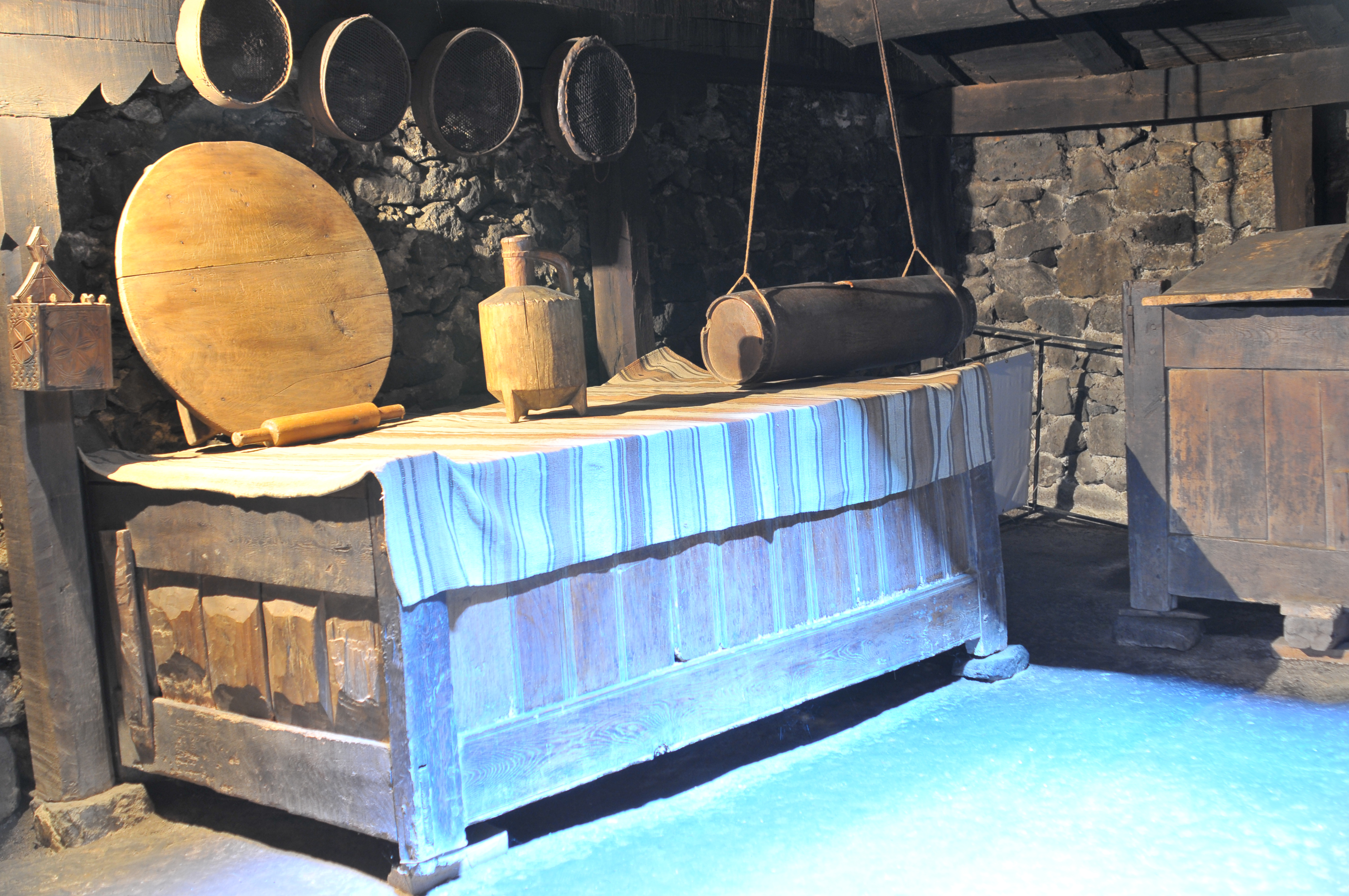 Hovhannes Toumanian House-Museum.